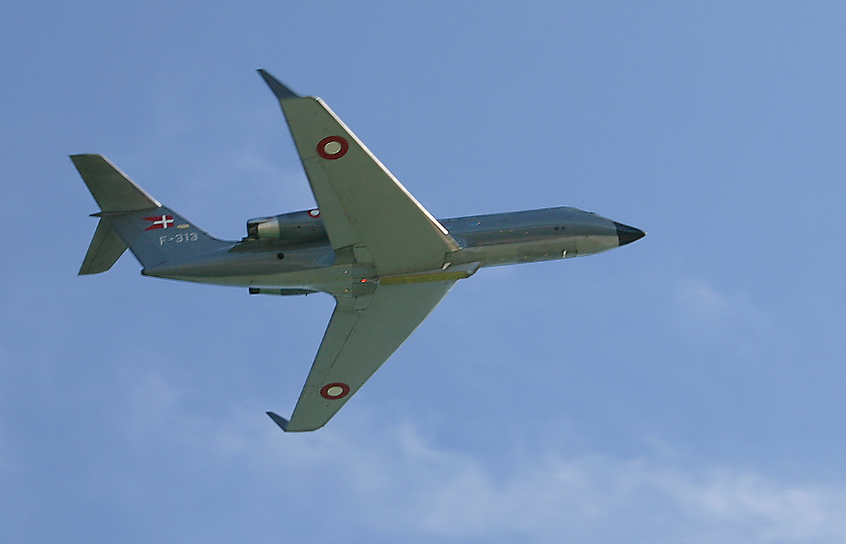 C-20 Gulfstream III, Grenen, Denmark